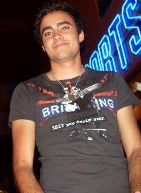 S Club 8 singer Calvin Goldspink